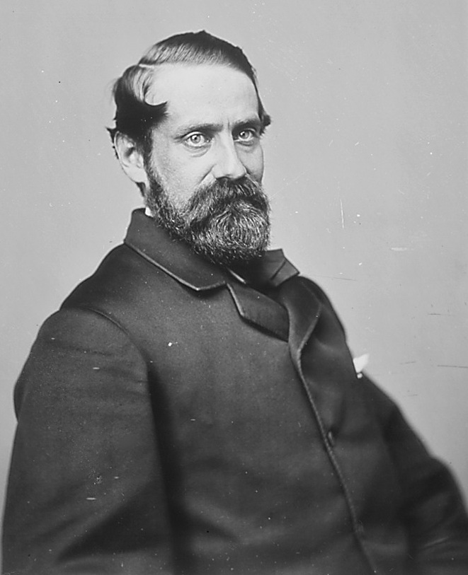 Augustus Brandegee, Congressman and Senator from Connecticut, Connecticut Governor